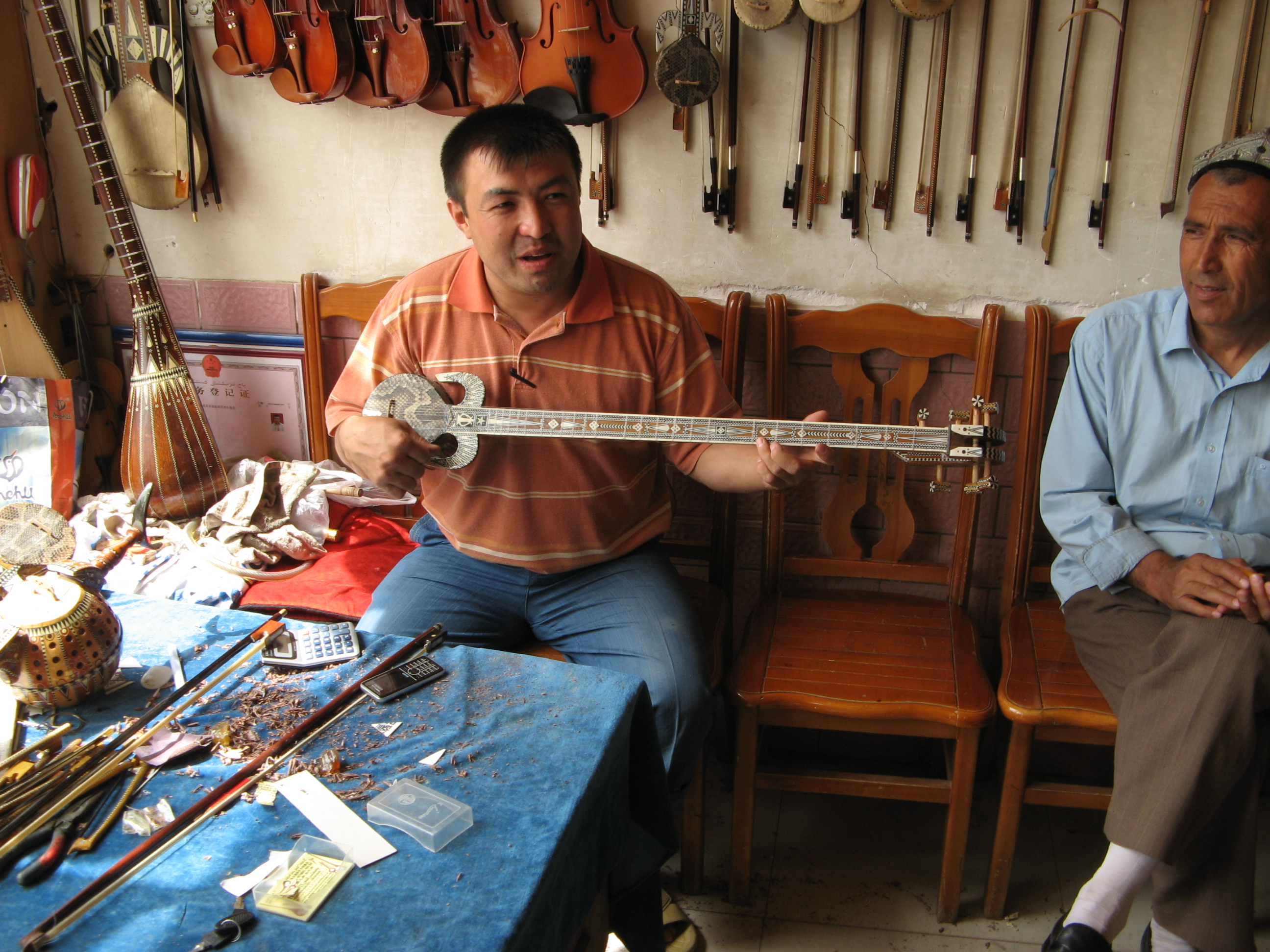 Musician. Kashgar, Xinjiang Province This man, a very skillful musician, is playing the rawap. Locals wander into the shop just to hear him play.